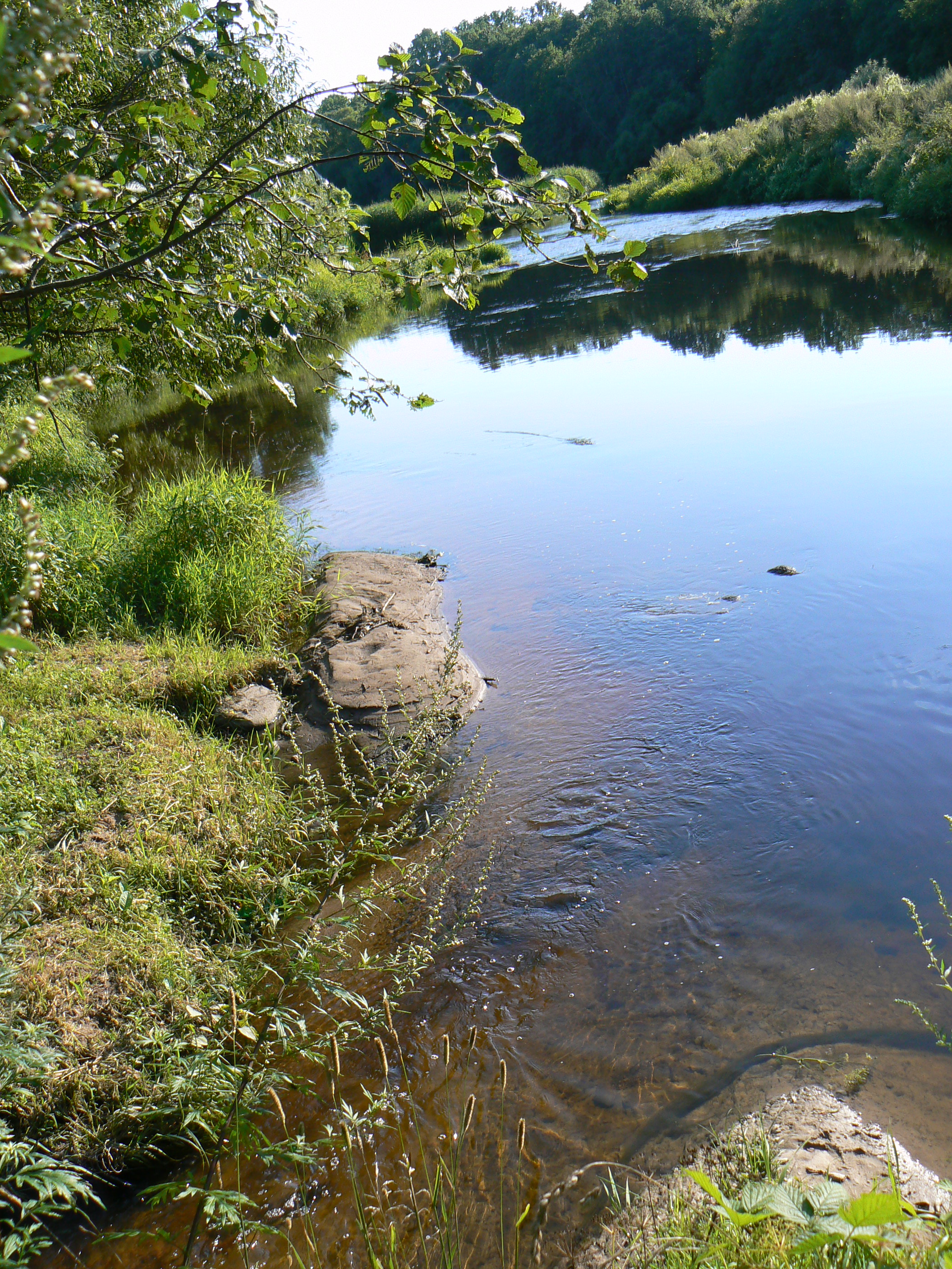 Confluence Nemylas and Jūra in Pajūris